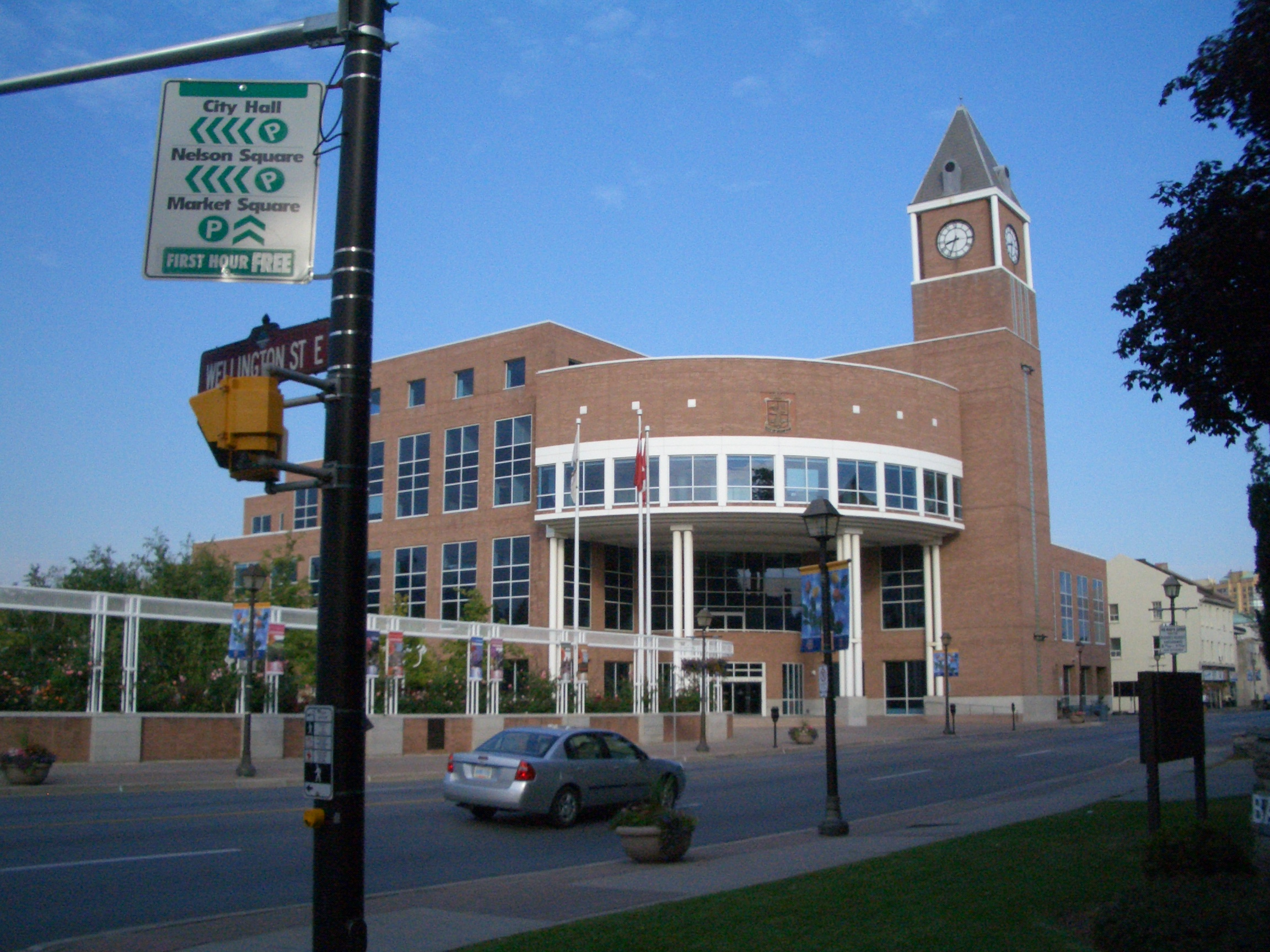 Picture of city hall in Brampton